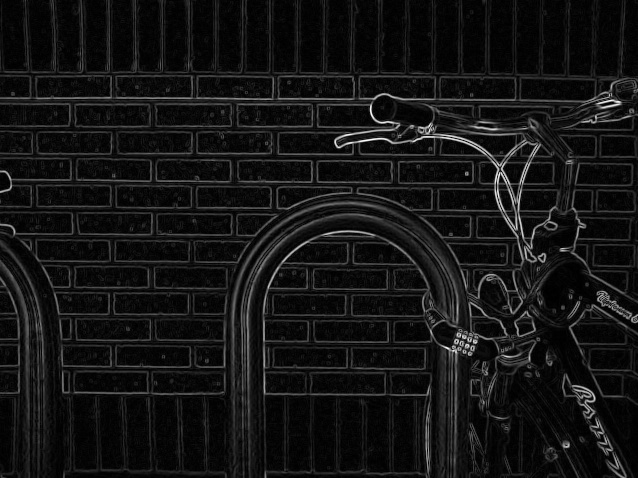 Grayscale image of a brick wall & bike rack convolved with Prewitt operator